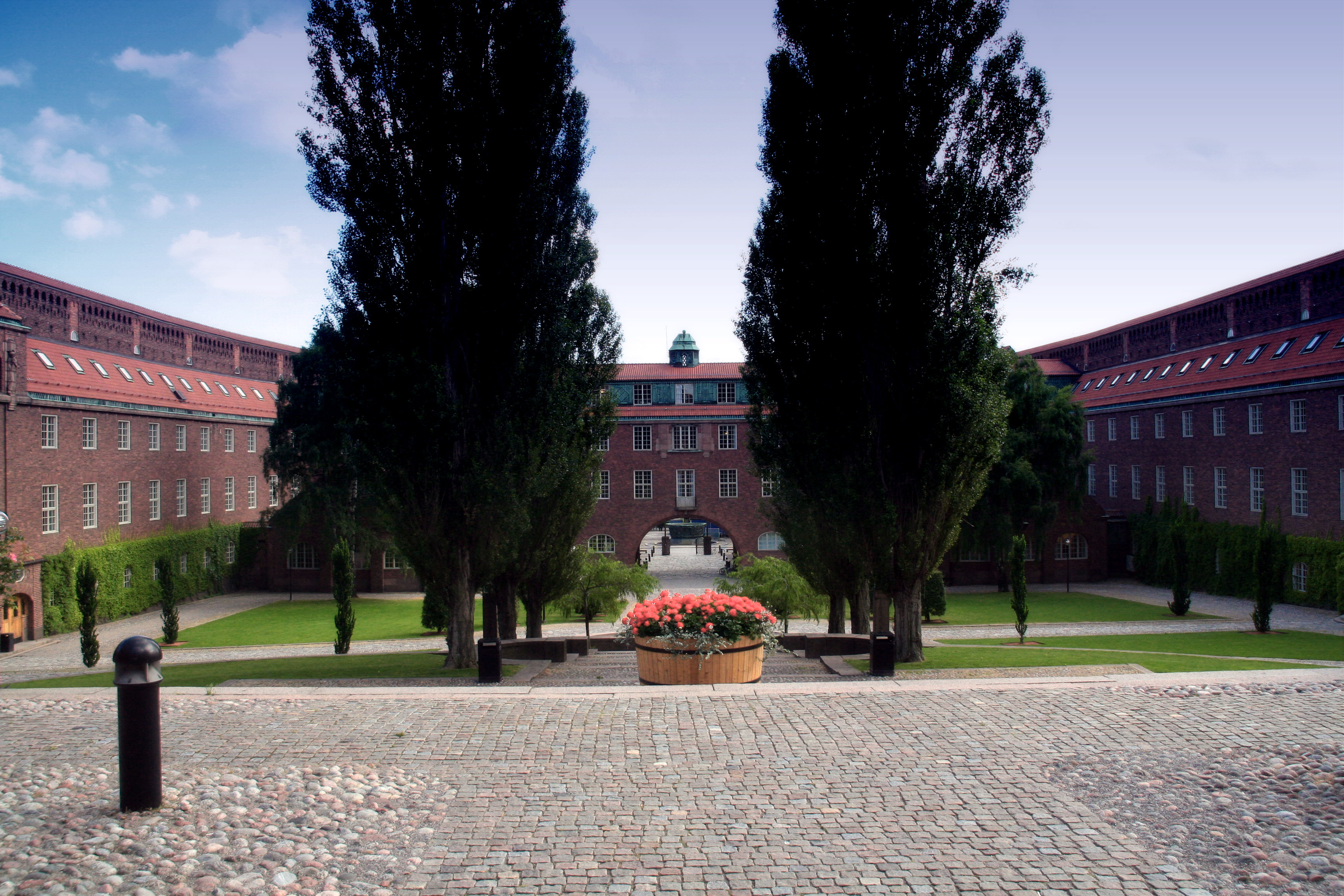 Royal Institute of Technology, Stockholm; Taken by me 2005 using a Canon EOS-350D